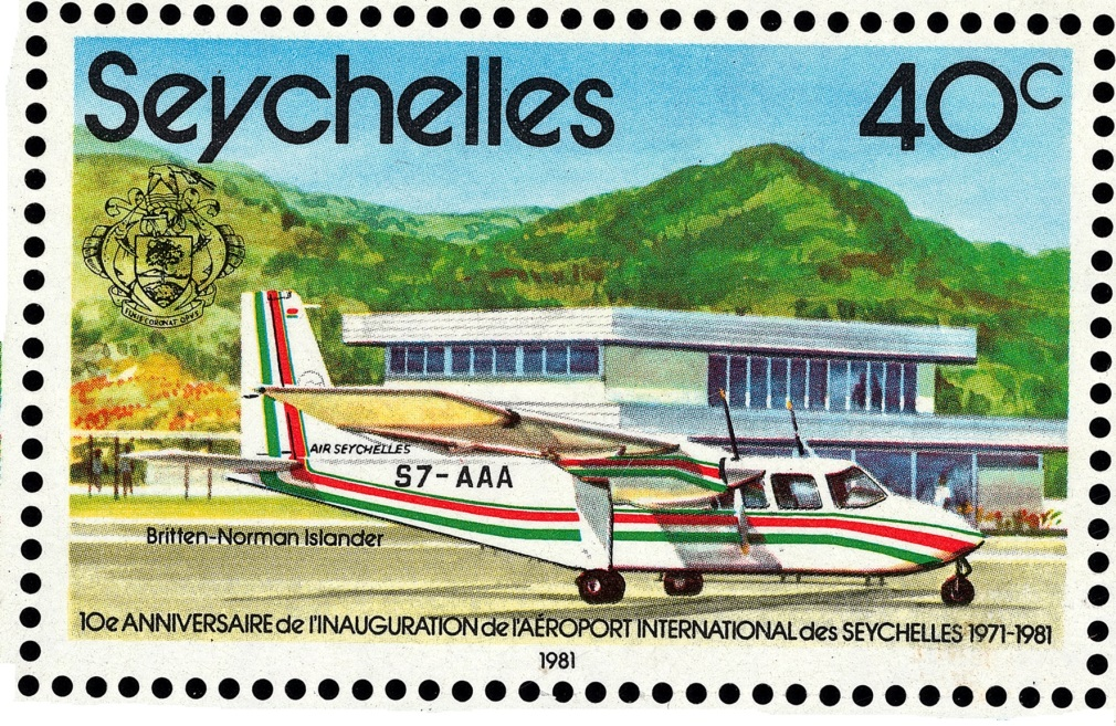 A stamp of Seychelles from 1981, commemorating the opening of the International Airport of Seychelles. The plane in the stamp is a Britten-Norman Islander